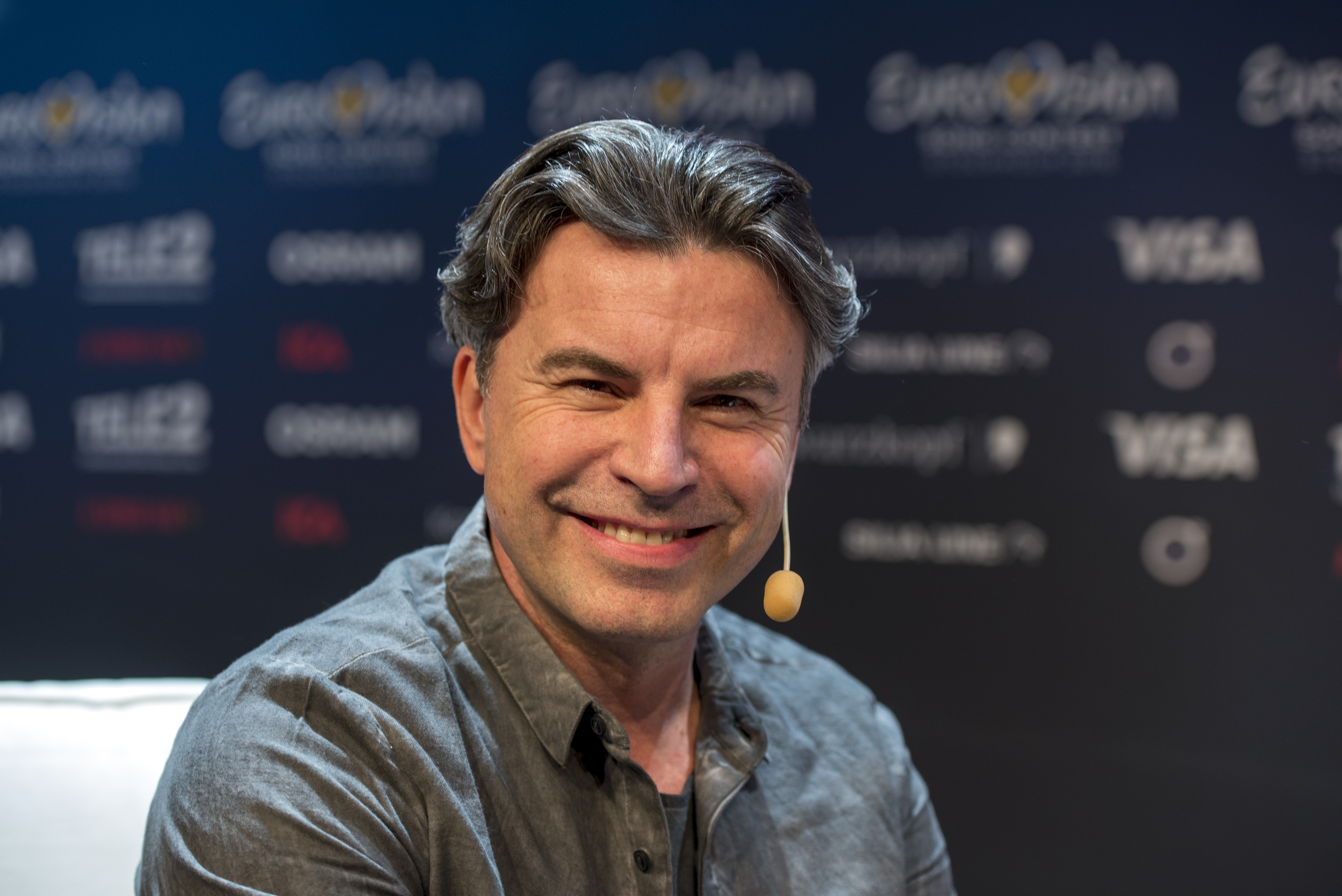 Jovan Radomir at a Meet & Greet during the Eurovision Song Contest 2016 in Stockholm. (Help translate this text)